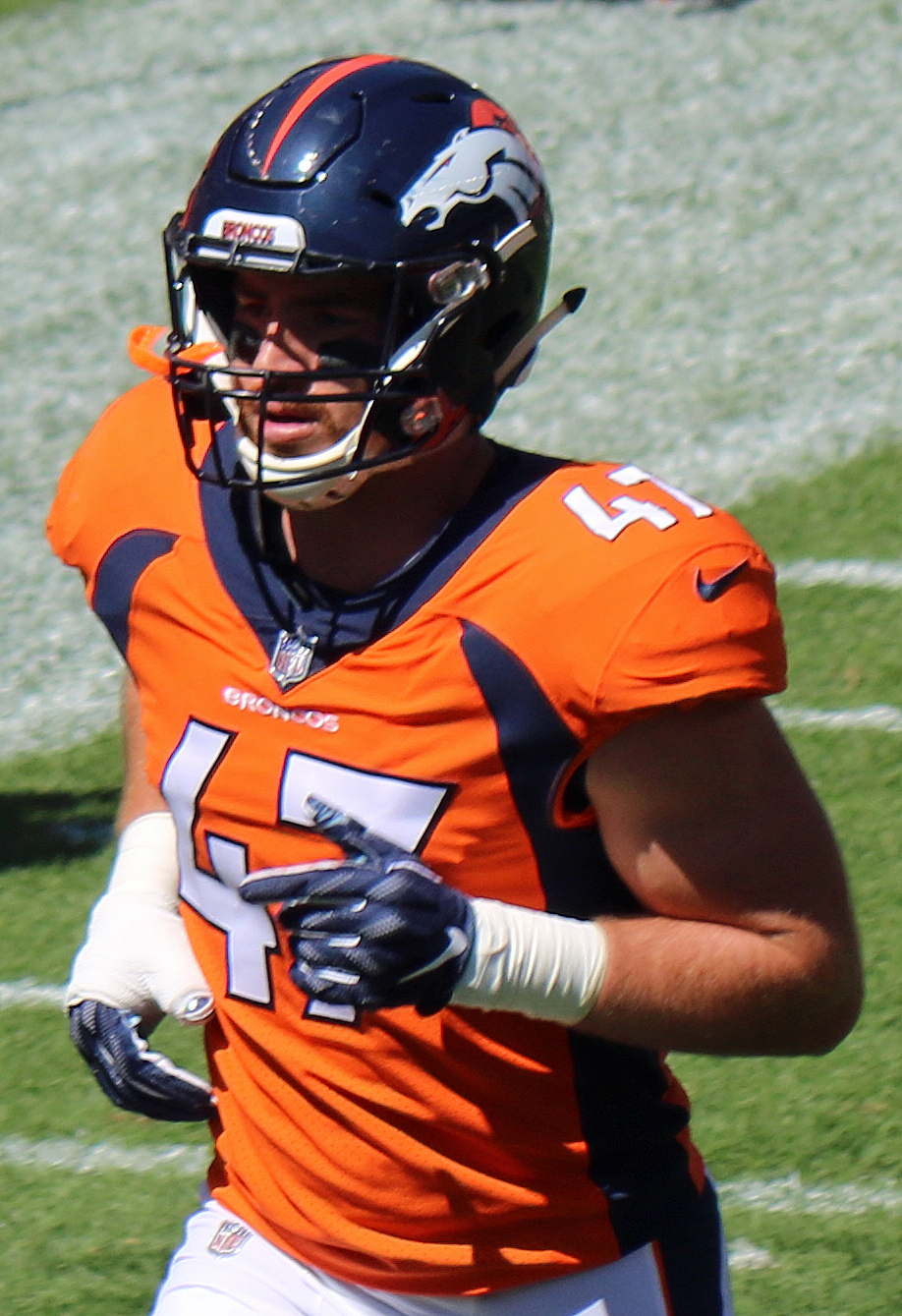 Josey Jewell, a National Football League player.